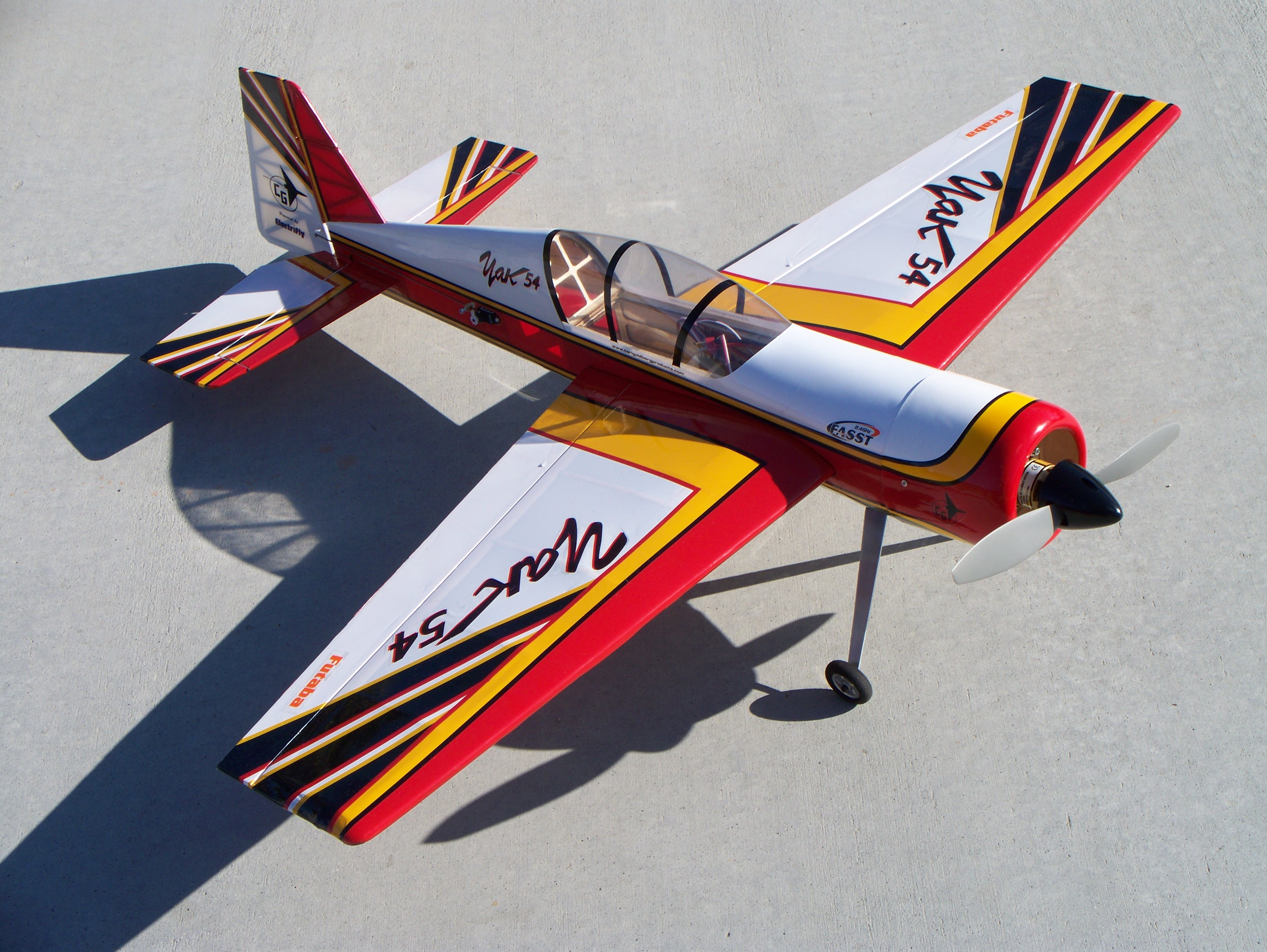 Photograph of a Carl Goldberg Products Yak-54 EP electric radio controlled aircraft owned by user PMDrive1061 and originally used by him for an online review of same at